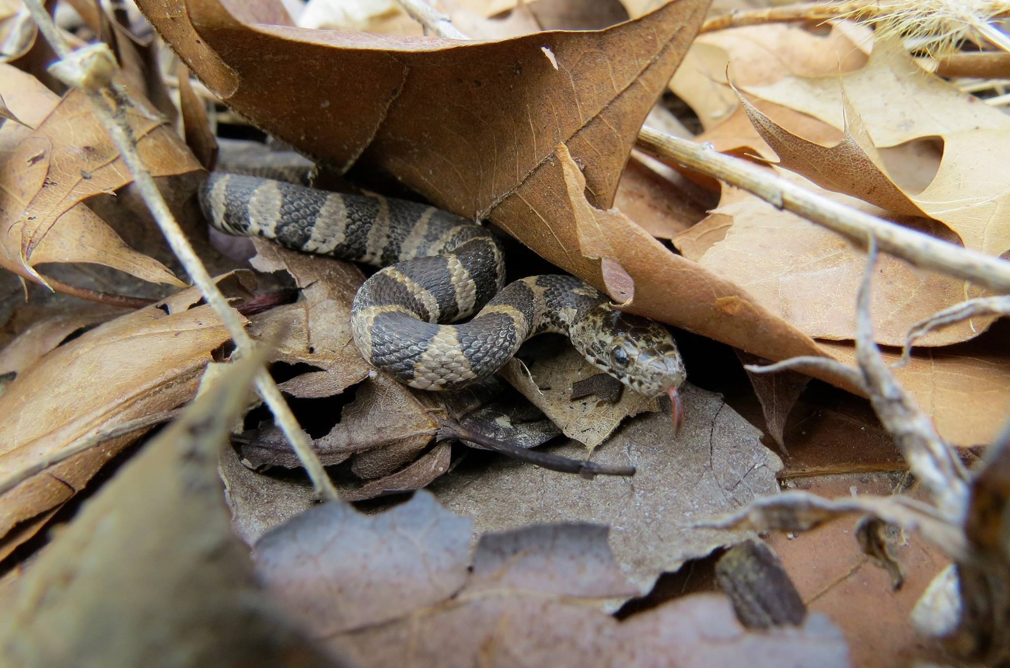 Have you seen any snakes so far this spring? This northern water snake was spotted under some leaves at Port Louisa National Wildlife Refuge in Iowa. Photo by Jessica Bolser/USFWS.